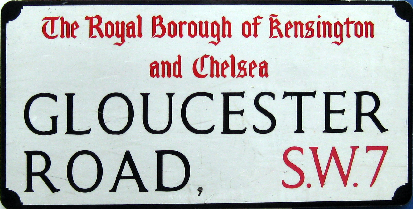 Gloucester Road street sign, London SW7